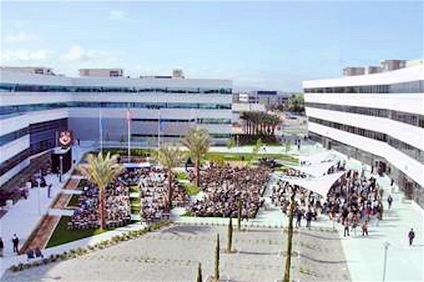 Space and Missile Systems Center at Los Angeles Air Force Base — in El Segundo, Los Angeles County, California. More than 1,000 civic leaders, Airmen, base employees, and guests gather for the dedication of the new Schriever Space Complex in El Segundo, Calif., on Monday, April 24, 2006.